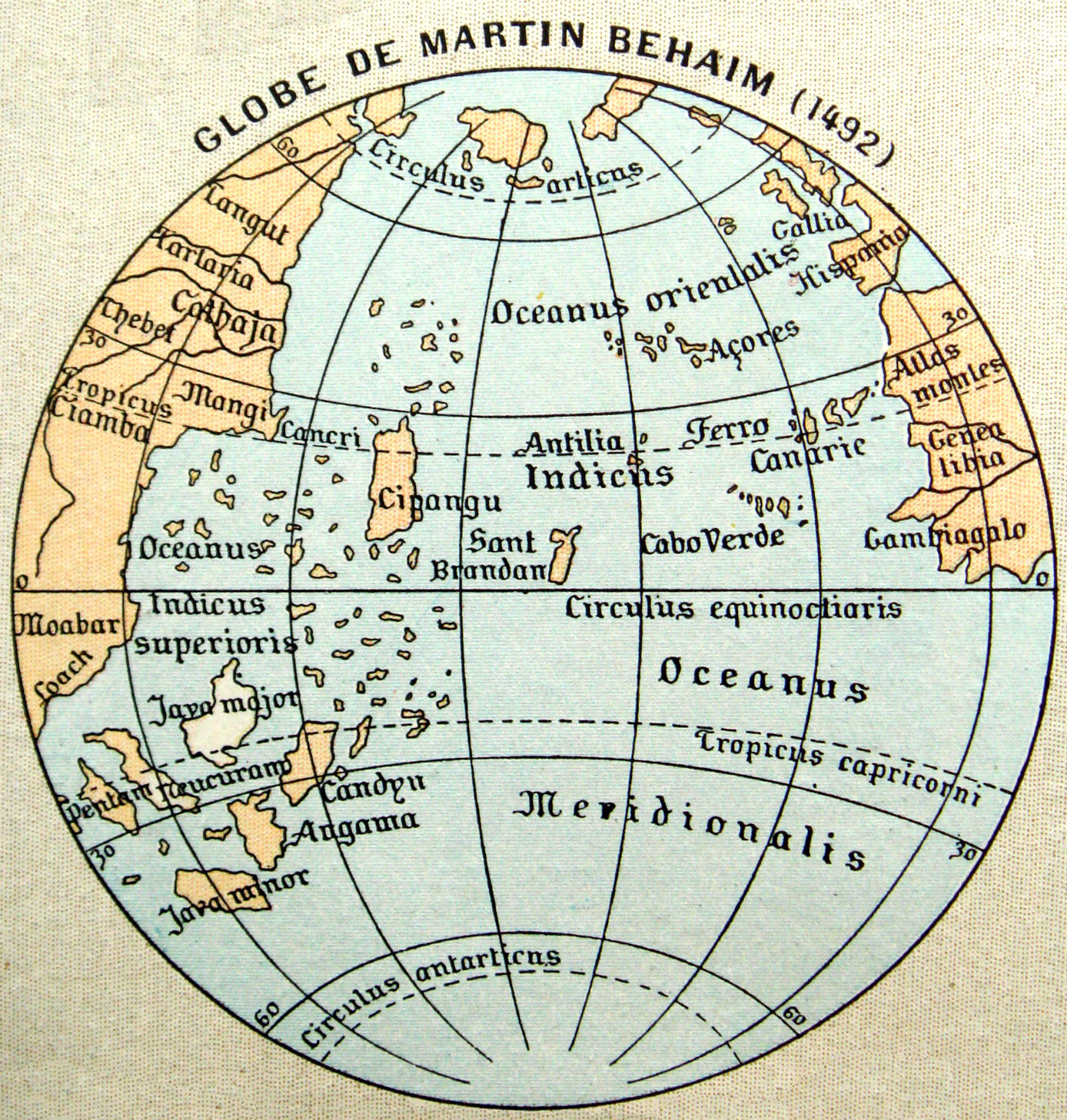 Reproduction of the globe of Martin Behaim, 1492.